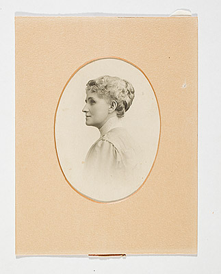 Not titled (Self-Portrait of Alice Mills), gelatin silver photograph, (1910).